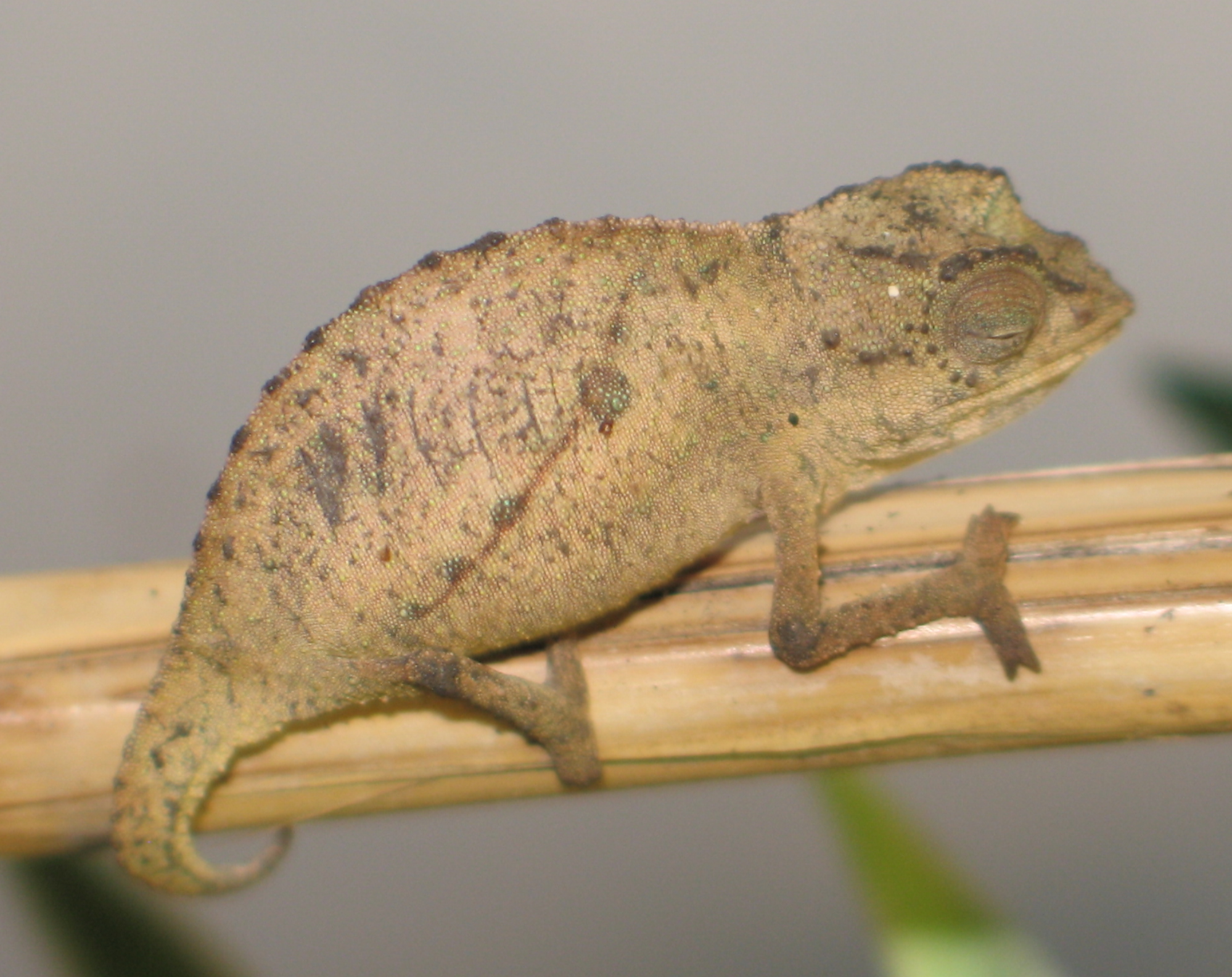 Picture of a young Rhampholeon temporalis, a terrestrial dwarf chameleon. Personnal picture of one of my own animals.